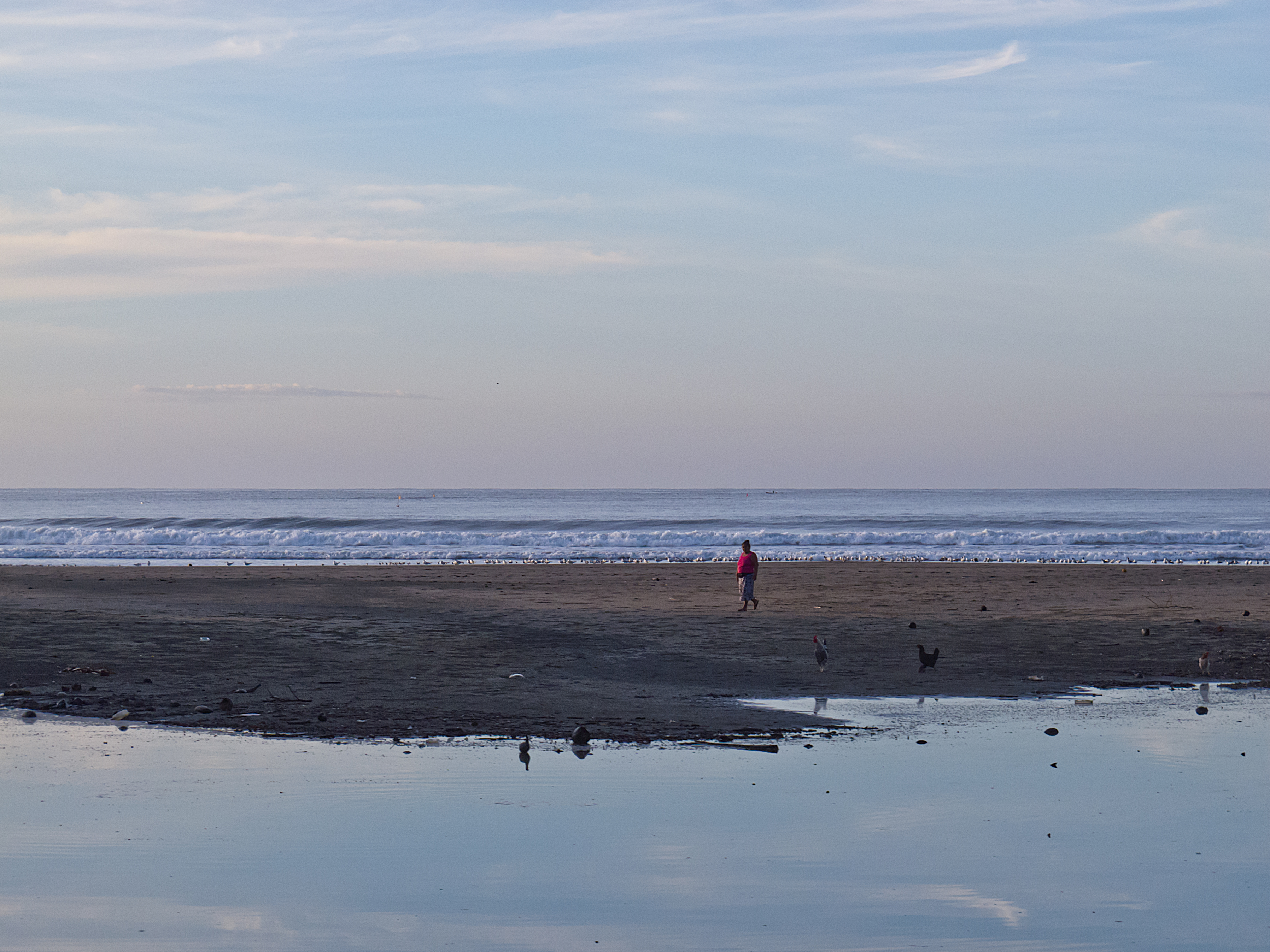 Beach at El Cuco, Dept of San Miguel, El Salvador